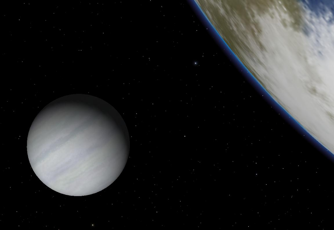 Planet HD 28185 b (min mass ~5.7 MJ) with a probable Earth-like moon.